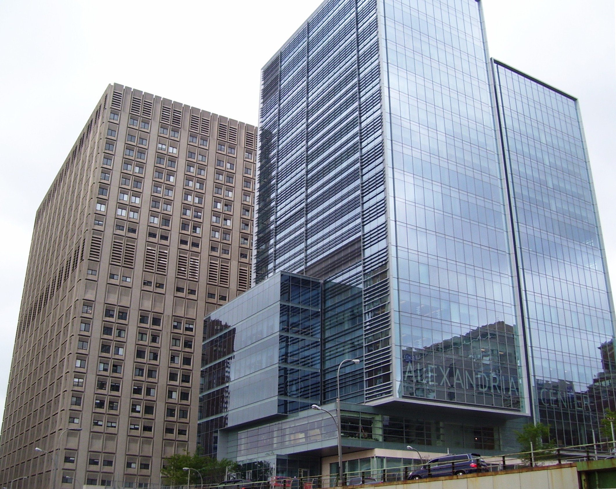 On the right,the Alexandria Center for Science and Technology at East River Science Park [1], seen from the FDR Drive at around 29th Street in Kips Bay, Manhattan, New York City. Behind it, "The Cube" building of Bellevue Hospital Center.